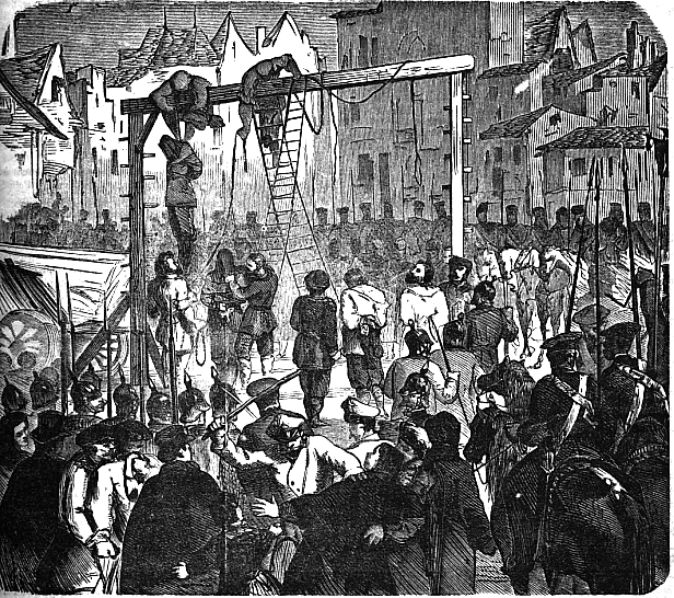 Hanging of Polish January insurgents by Russians in Warsaw